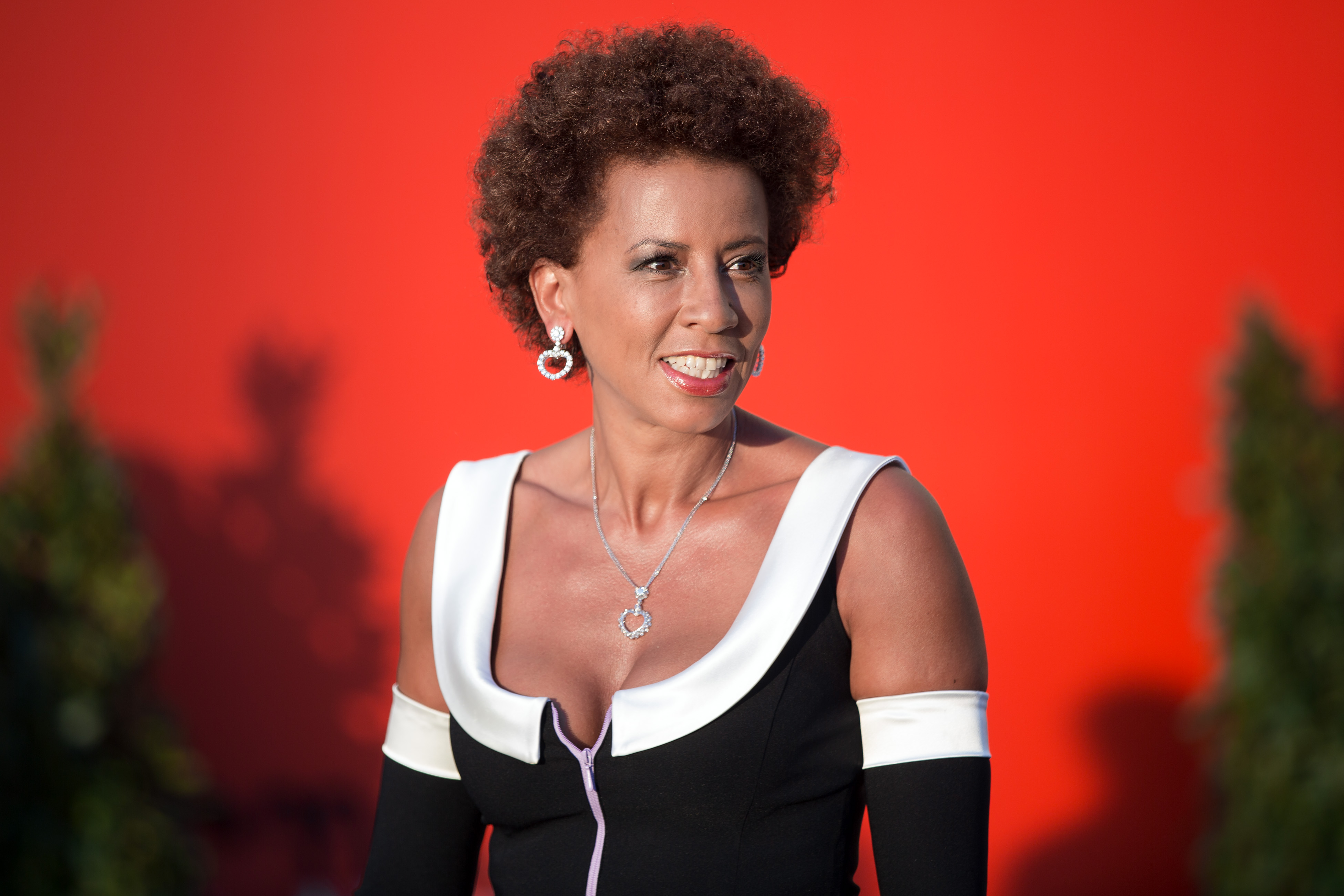 Arabella Kiesbauer on the red carpet of the Romy TV awards 2016 at Hofburg Palace in Vienna, Austria.